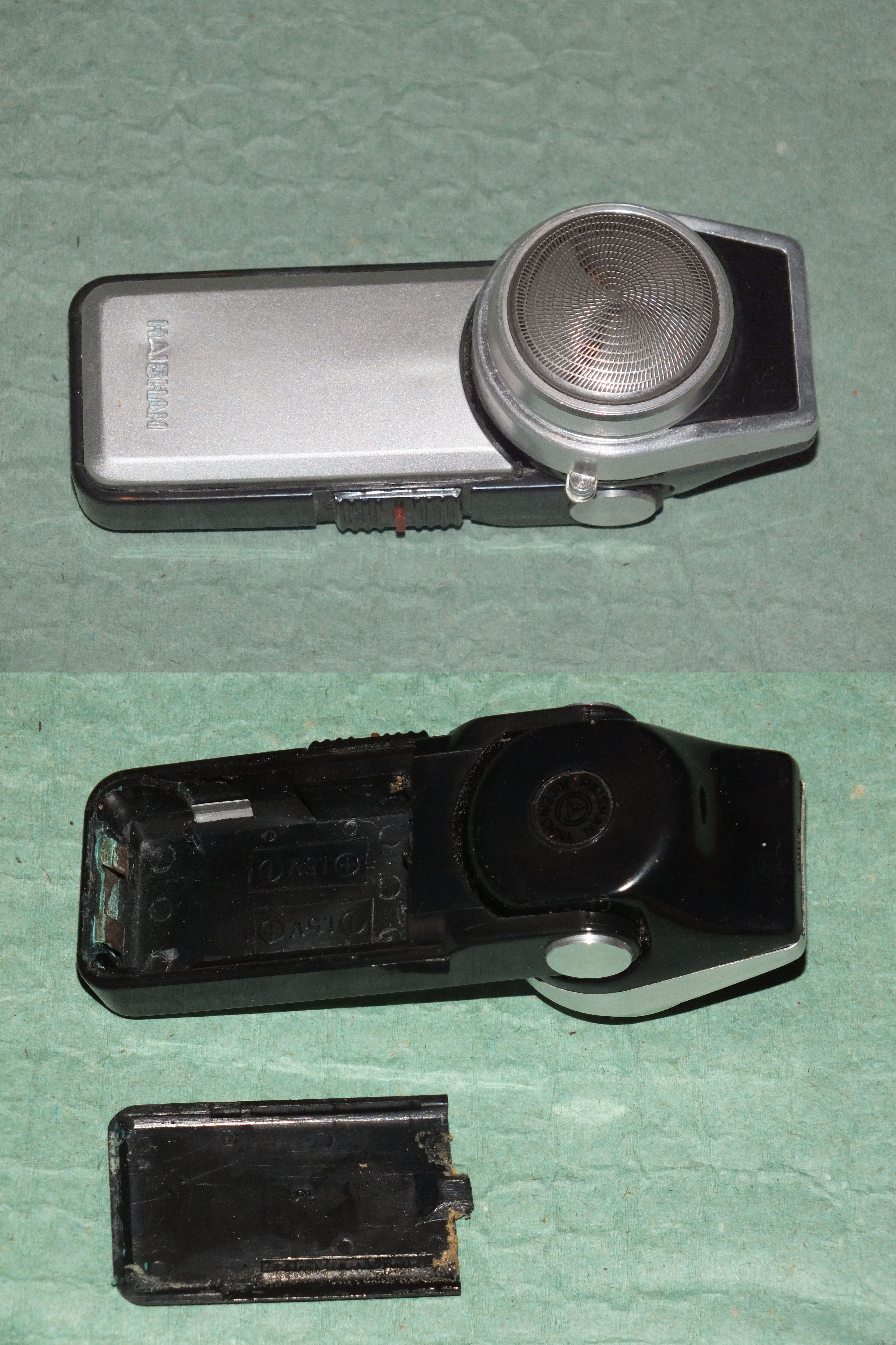 Electric shavers